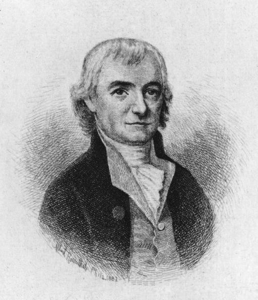 Michael Hillegas